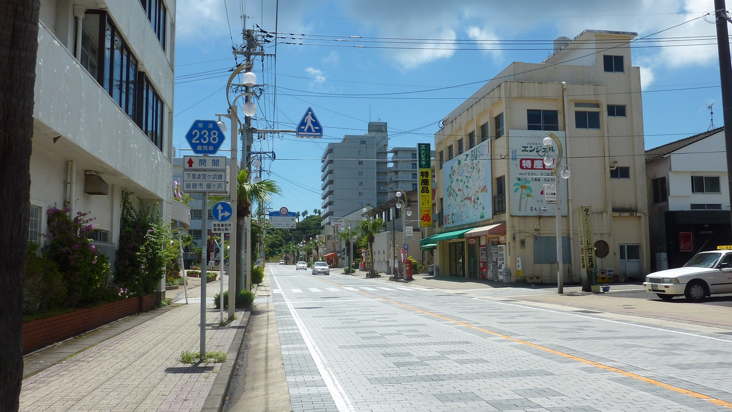 Kagoshima Prefectural Road No.238:KudariMinato-Miyagahama Line (Ibusuki City, Kagoshima, Japan)